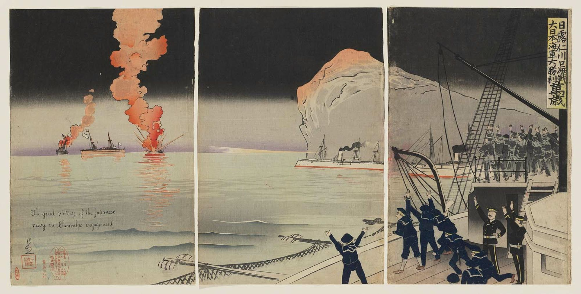 Russo-Japanese Naval Battle at the Entrance of Inchon: The Great Victory of the Japanese Navy--BANZAI!, ukiyo-e print of the Russo-Japanese War by Kobayshi Kiyochika